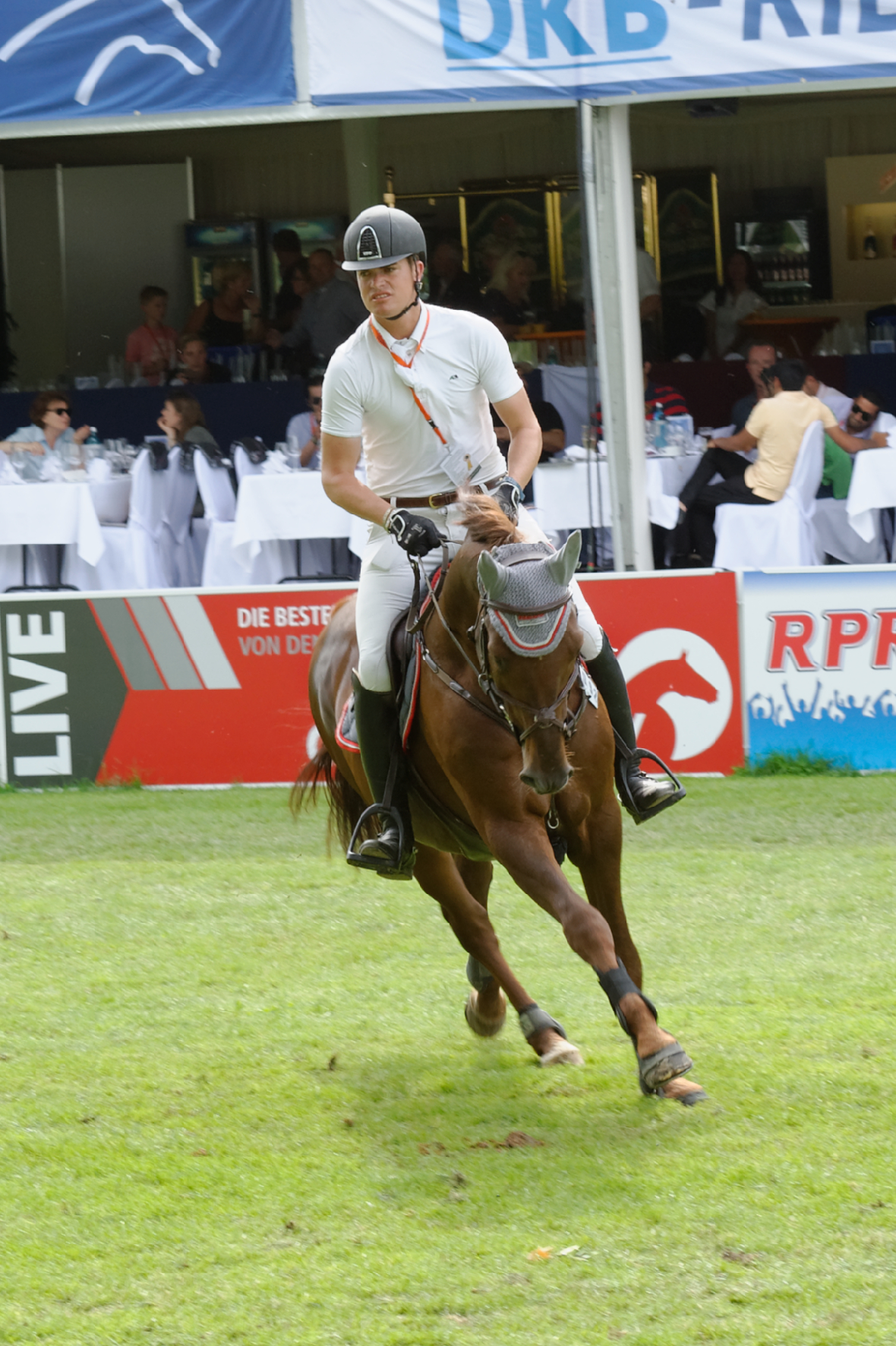 Internationales Pfingstturnier Wiesbaden 2014 The making of this document was supported by the Community-Budget of Wikimedia Germany.